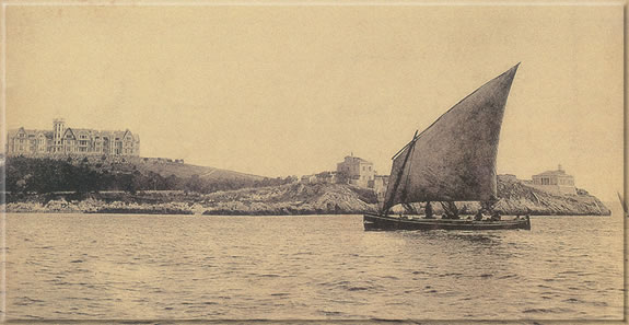 Trainera of fishermen plying the bay of Santander, Cantabria, Spain; in the background, the palace of La Magdalena. A reprint of a postcard published by Visitación Poblador (Santander) in the early 20th century.